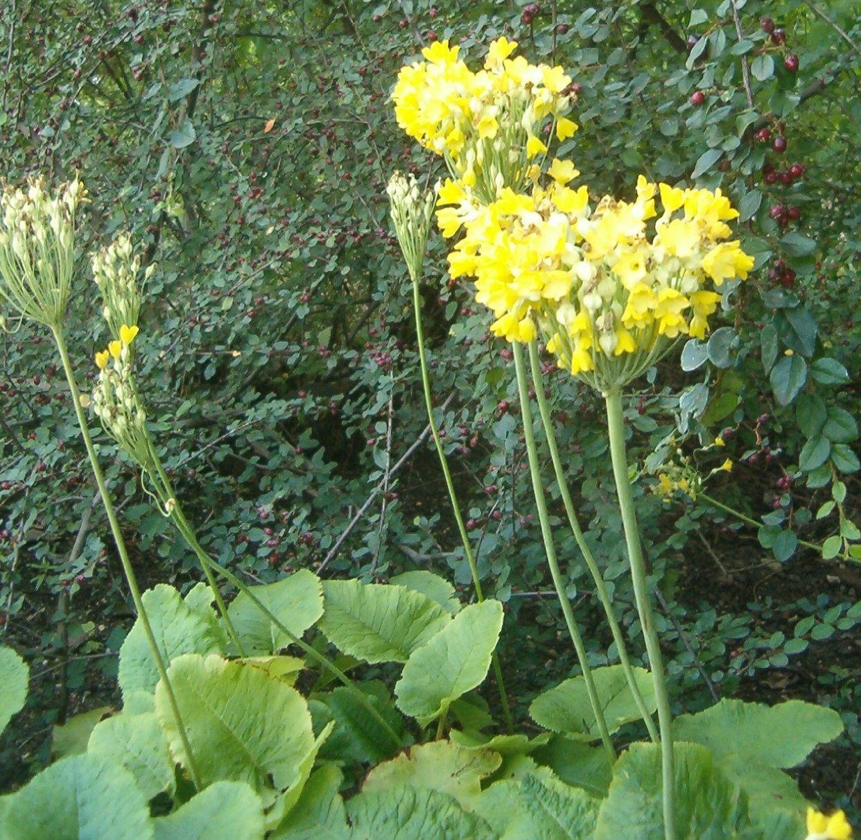 At Botanical Gardens Berlin-Dahlem Species Primula florindae